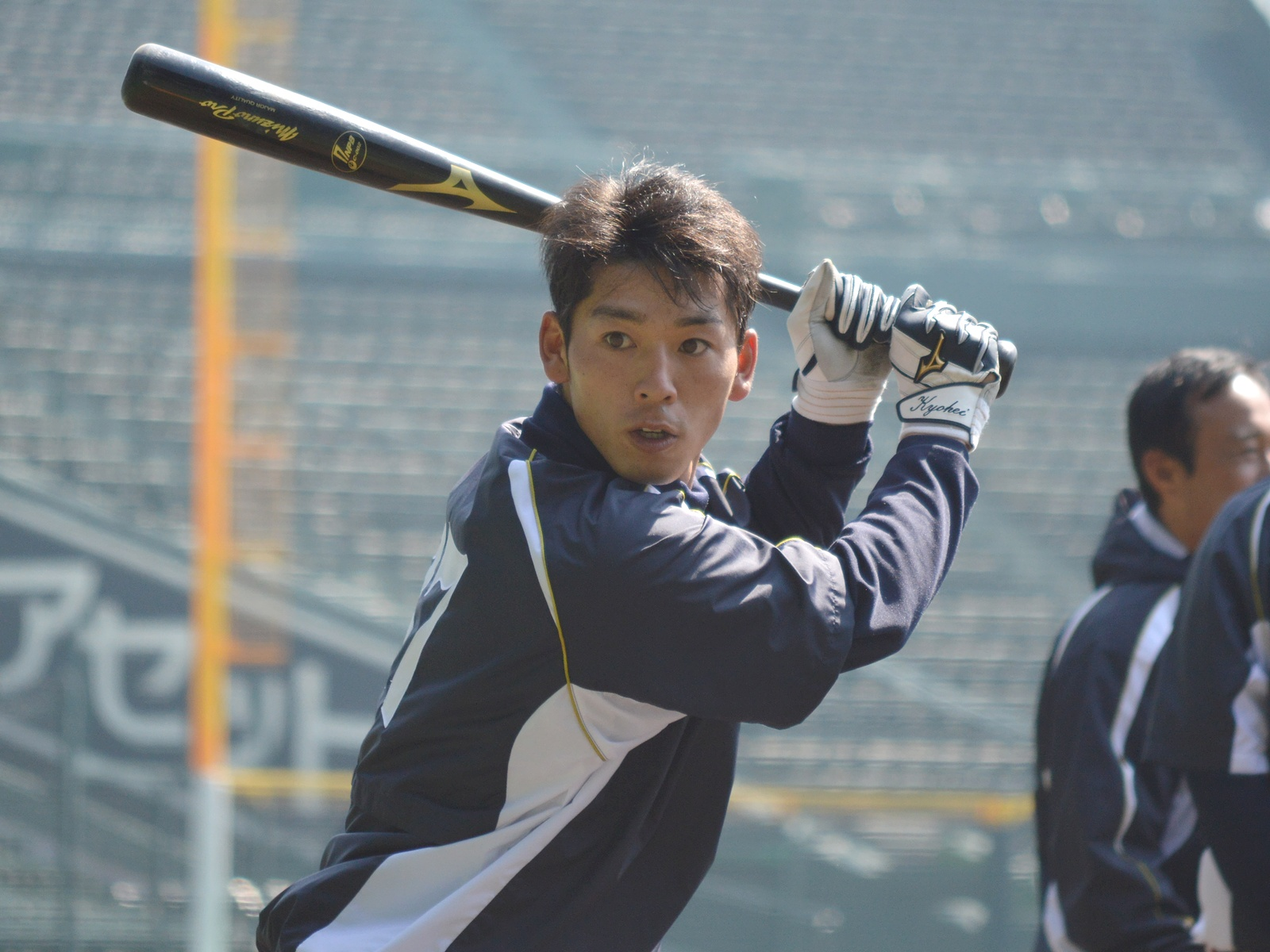 Kyohei Iwasaki, infielder of the Chunichi Dragons, at Hanshin Koshien Stadium.